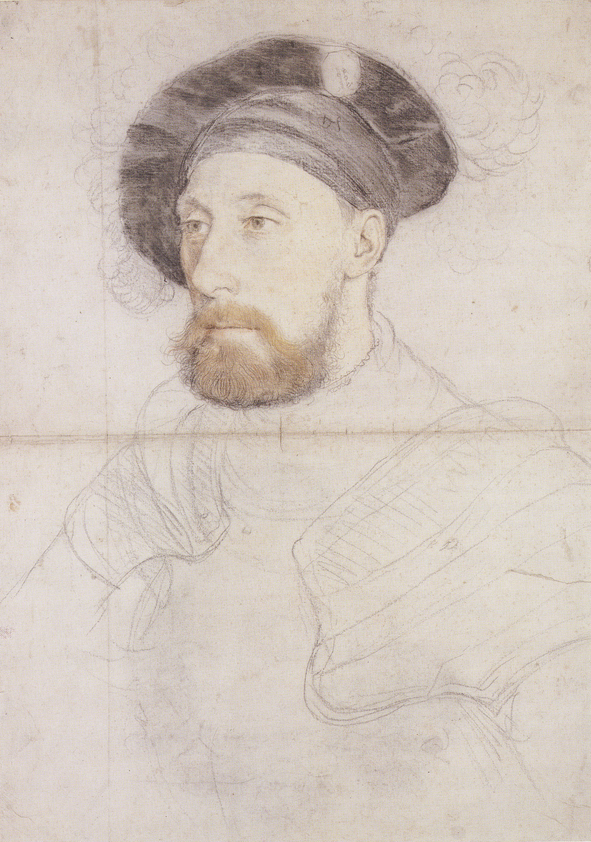 Portrait of Sir Nicholas Carew. Black and coloured chalk, 54.8 × 38.5 cm, Kunstmuseum Basel. Sir Nicholas Carew was equerry to Henry VIII at the time of this study. He was executed for treason in 1539. The drawing is regarded as a fine example of Holbein's draughtsmanship and, since it has not been cut down, of the original format of his studies for oil paintings. The oil portrait of Carew at Drumlanrig Castle is based on this sketch or on a lost painting by Holbein. It is thought to be either by a follower of Holbein or to have been started by Holbein and finished by another hand (Müller, p. 381).